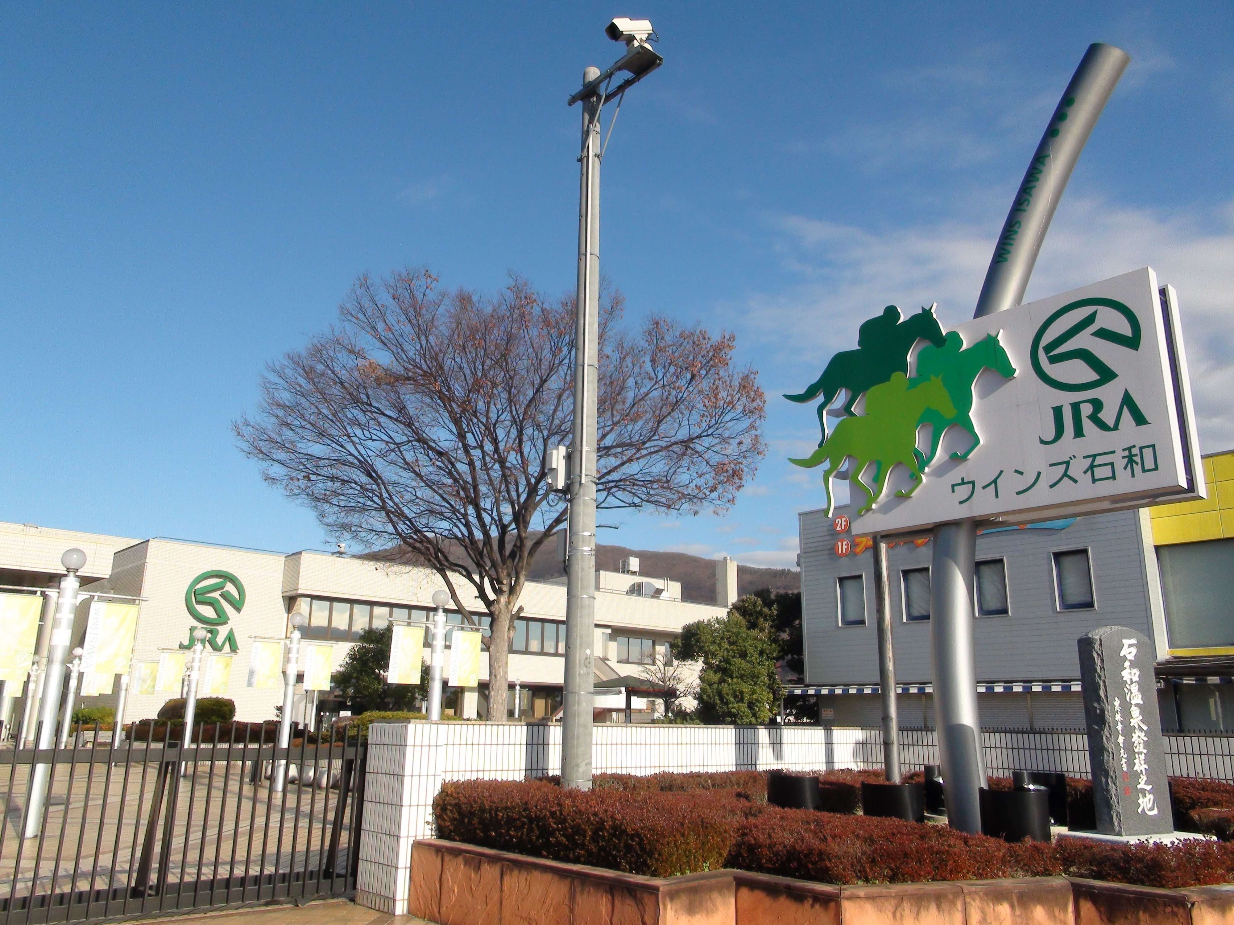 JRA WINS Isawa